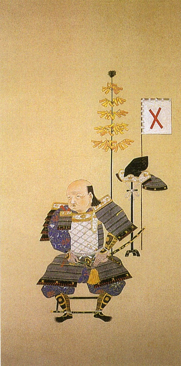 Niwa Nagashige, lord of the Shirakawa domain.